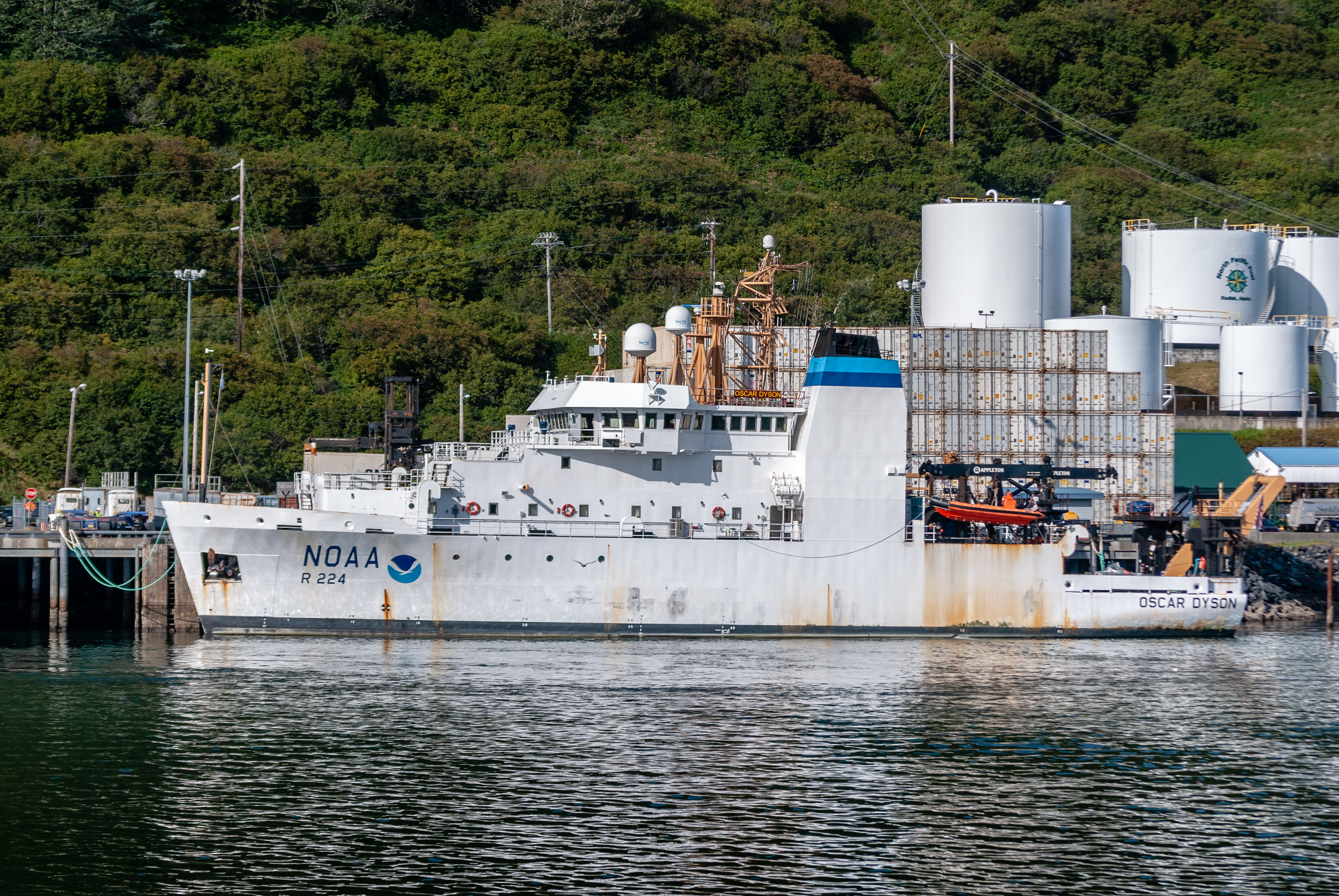 Fisheries research ship, NOAAS OSCAR DYSON (R 224) - IMO 9270335 in home port of Kodiak, Alaska on September 5, 2018.